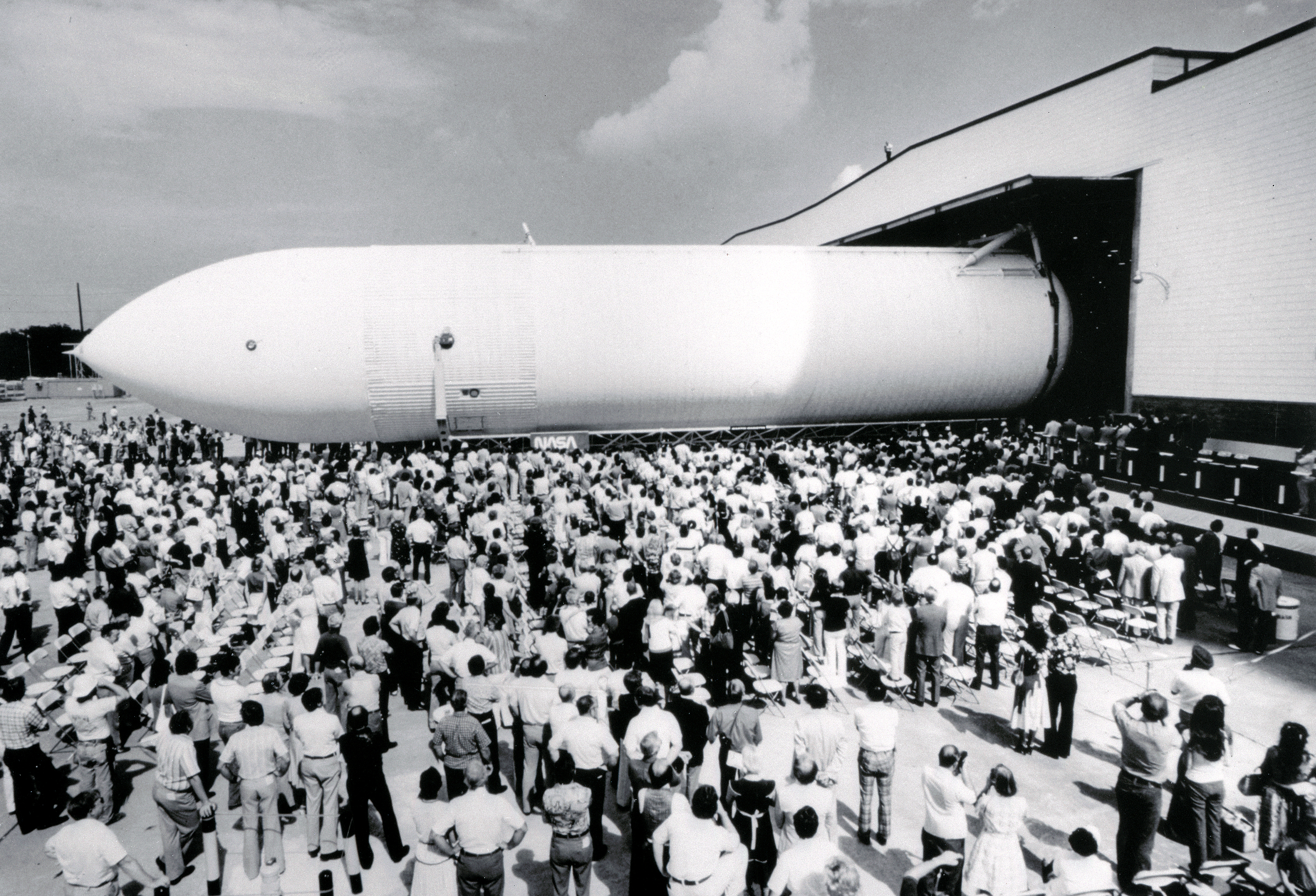 The first Space Shuttle External Tank (ET), the Main Propulsion Test Article (MPTA), rolls off the assembly line on September 9, 1977 at Michoud Assembly Facility in New Orleans, Louisiana. The MPTA was then transported to the National Space Technology Laboratories (currently called Stennis Space Center) in southern Mississippi where it was used in the static test firing of the Shuttle's cluster of three main engines. Marshall Space Flight Center was responsible for developing the External Tank. External Tank contains two tanks, one for liquid hydrogen and one for liquid oxygen, and a plumbing system that supplies propellant to the Main Engines of the Space Shuttle Orbiter.